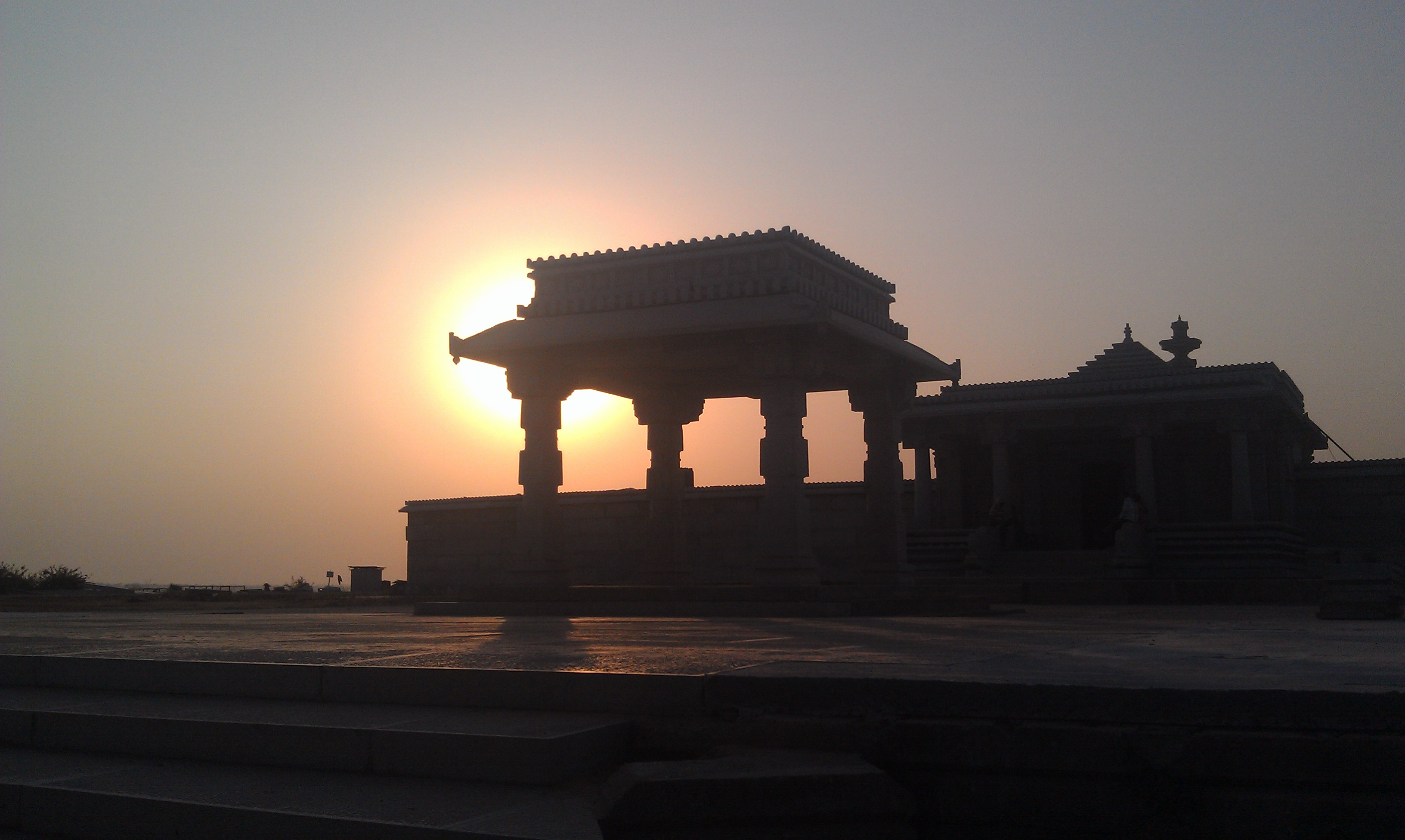 with sunset